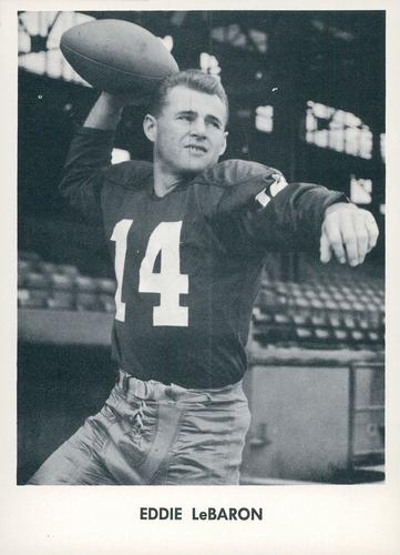 An publicity image of Washington Redskins player Eddie LaBaron.